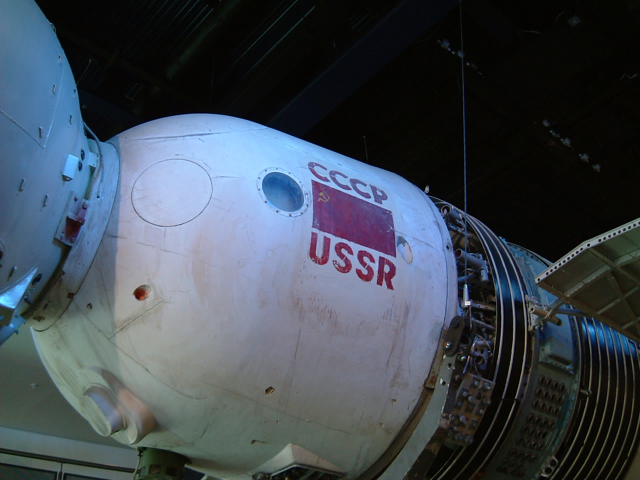 A Russian Soyuz space capsule, in the National Space Centre, Leicester.